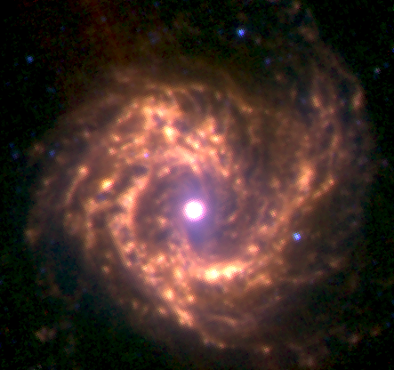 Image of the M61 galaxy in infrared at 3.6 (blue), 5.8 (green) and 8.0 µm. The image has been made by myself (Médéric Boquien) from the public image archive of the Spitzer Space Telescope (courtesy NASA/JPL-Caltech).